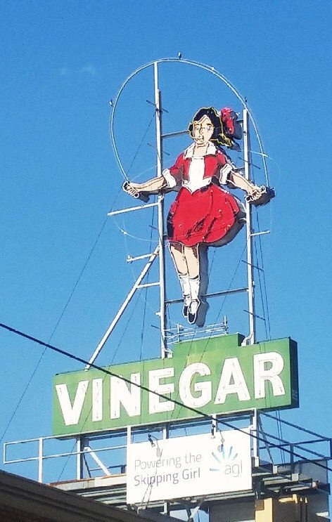 The famous Skipping Girl Vinegar sign which stands on an old vinegar factory in Abbotsford, Melbourne, Victoria, Australia